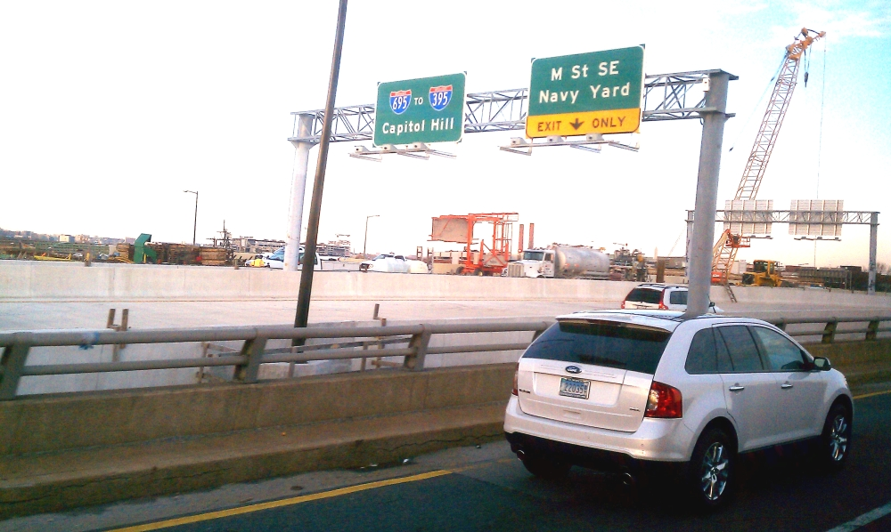 Looking northeast across the newly-built inbound span of the 11th Street Bridges in Washington, D.C., on December 16, 2011. The signage indicates that the bridges connect to Interstate 695 (also known as the Southest/Southwest Freeway) -- which was previously unmarked.